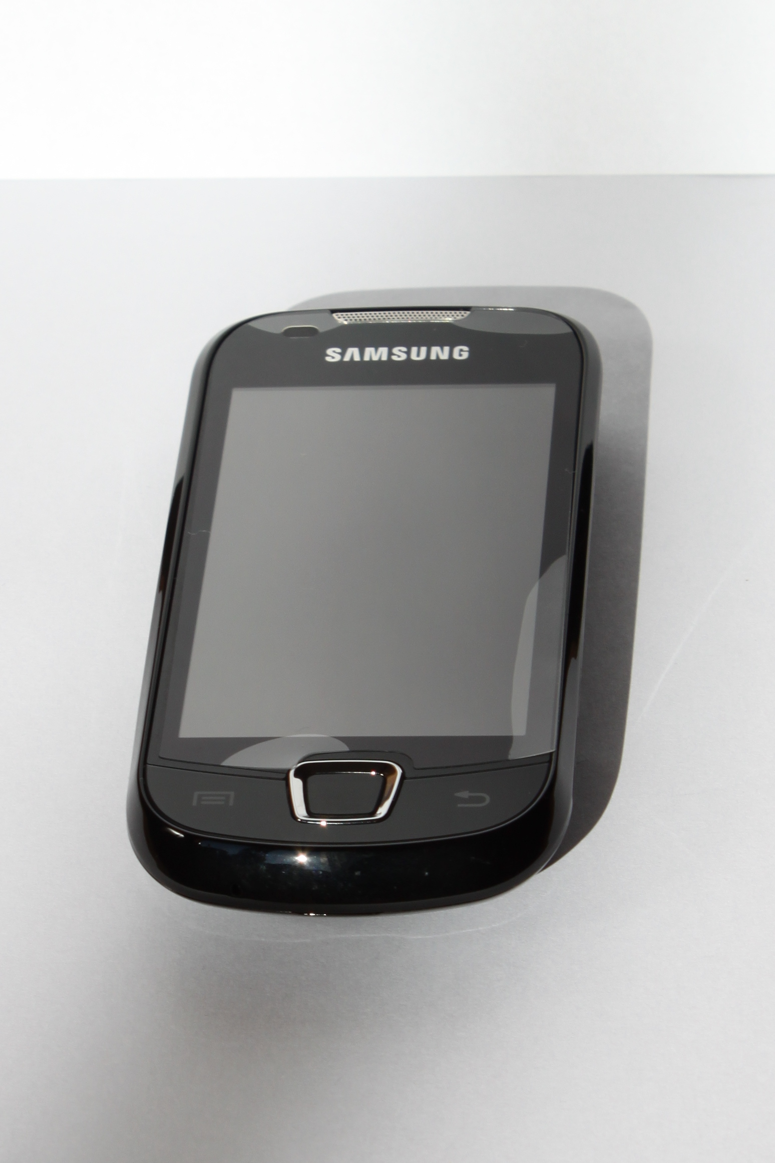 Samsung i5800 Galaxy 3